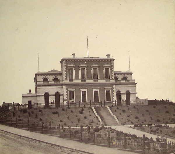 Ballarat East Town Hall, Victoria